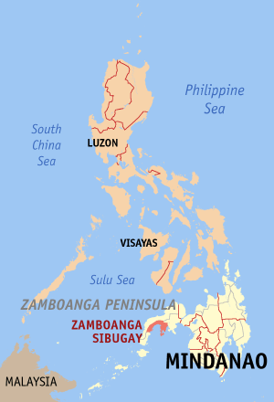 Map of the Philippines showing the location of Zamboanga Sibugay